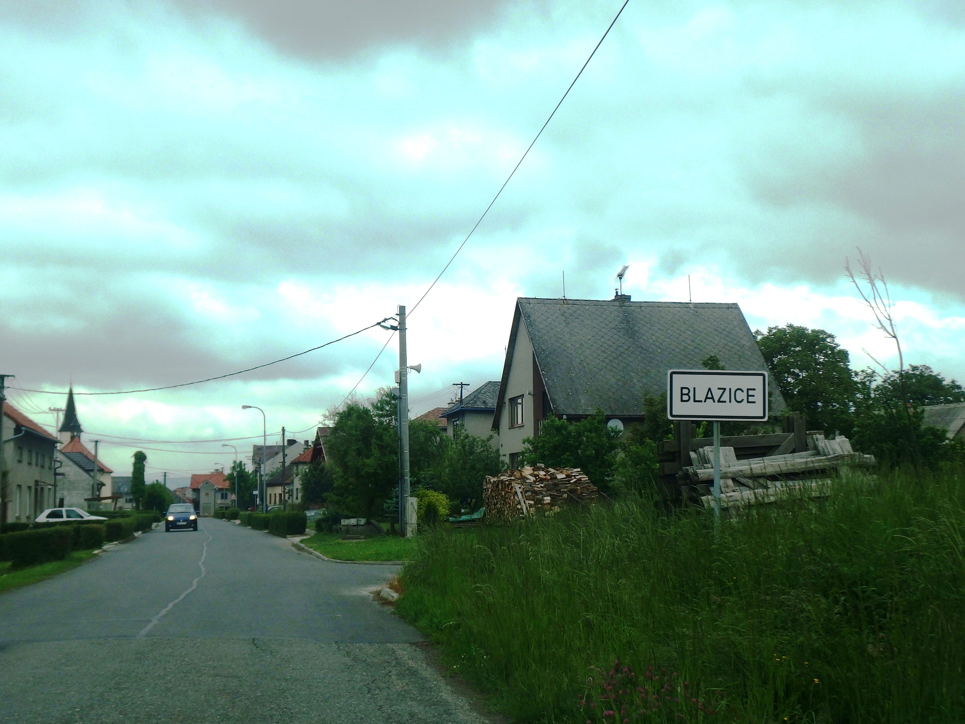 Blazice, Kroměříž District, Czech Republic.